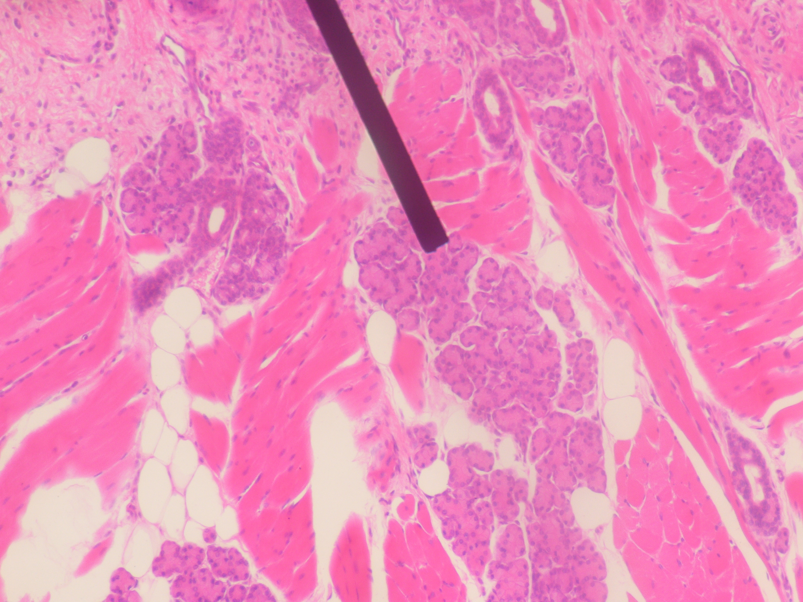 Digital camera shot of human Von Ebner's Gland through a microscope.